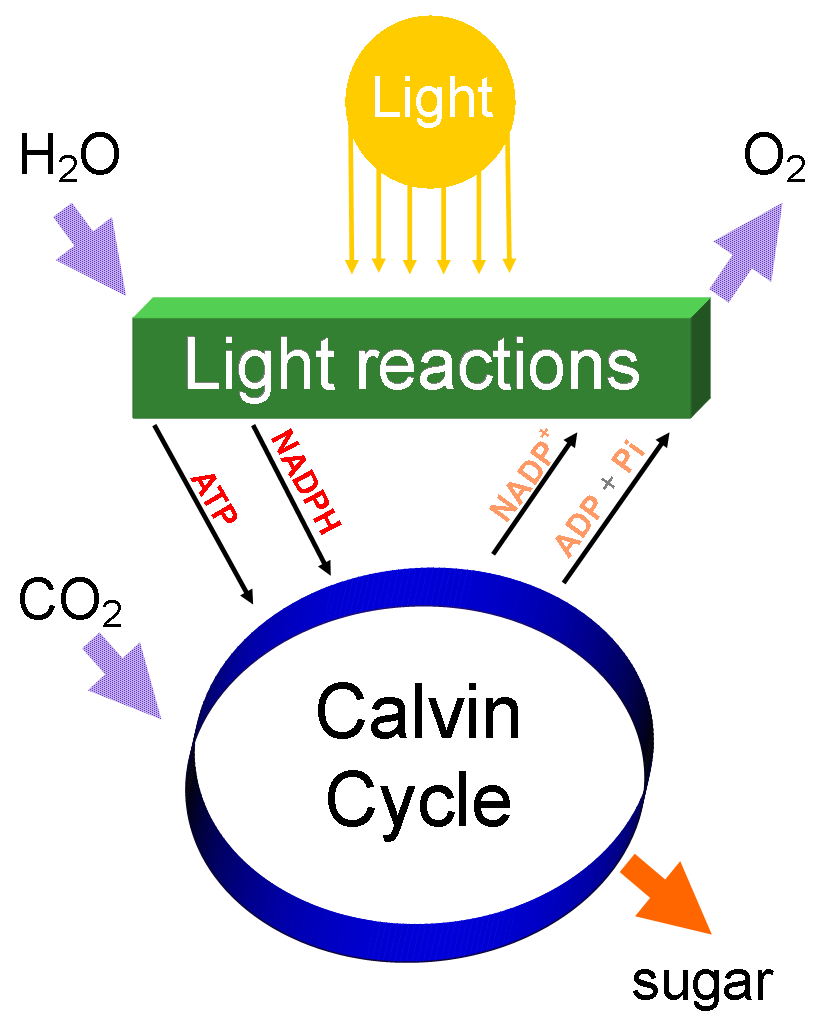 A simplified diagram of photosynthesis